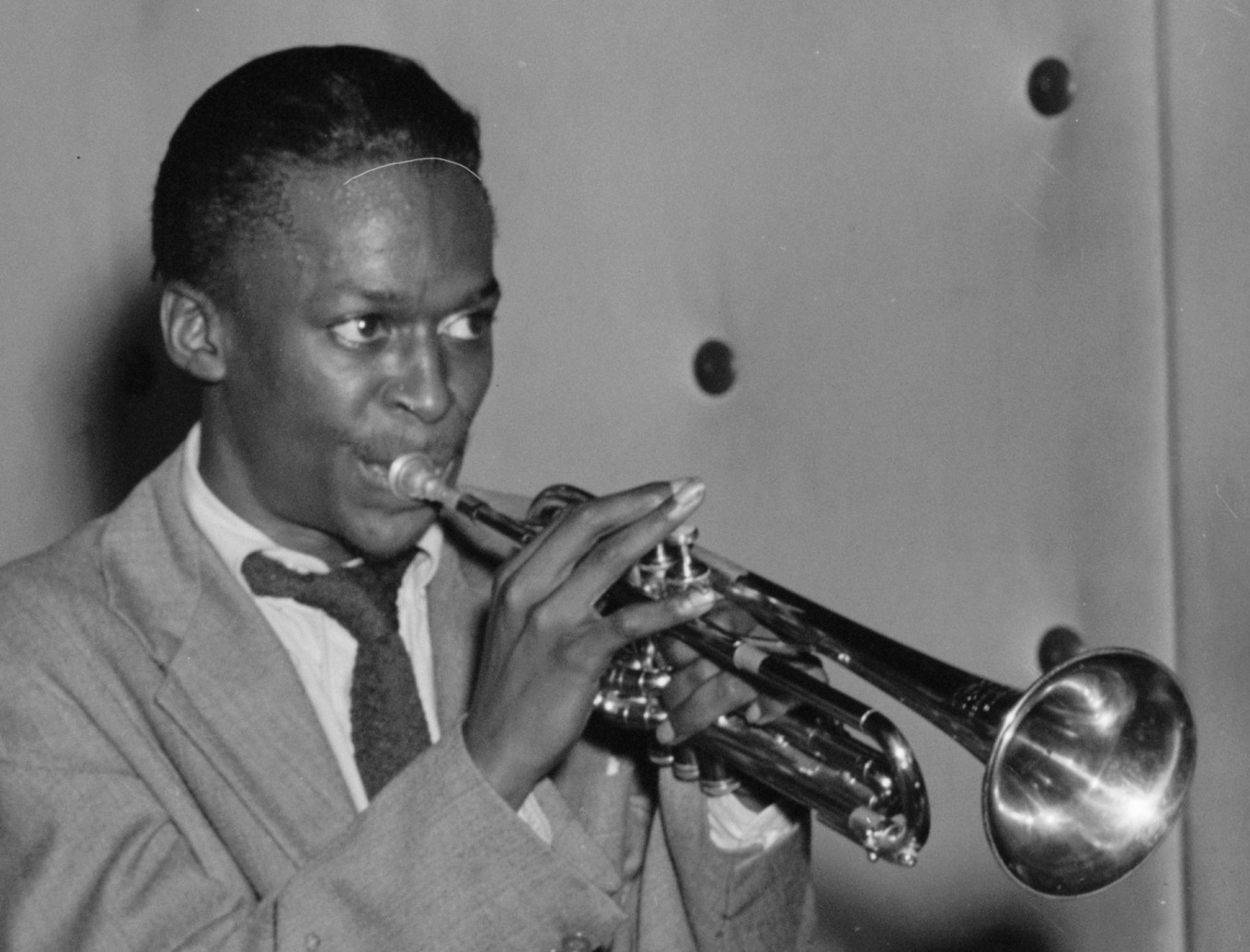 Portrait of Tommy Potter, Charlie Parker, Max Roach (almost hidden by Parker), Miles Davis, and Duke Jordan (from left to right), Three Deuces, New York, N.Y.